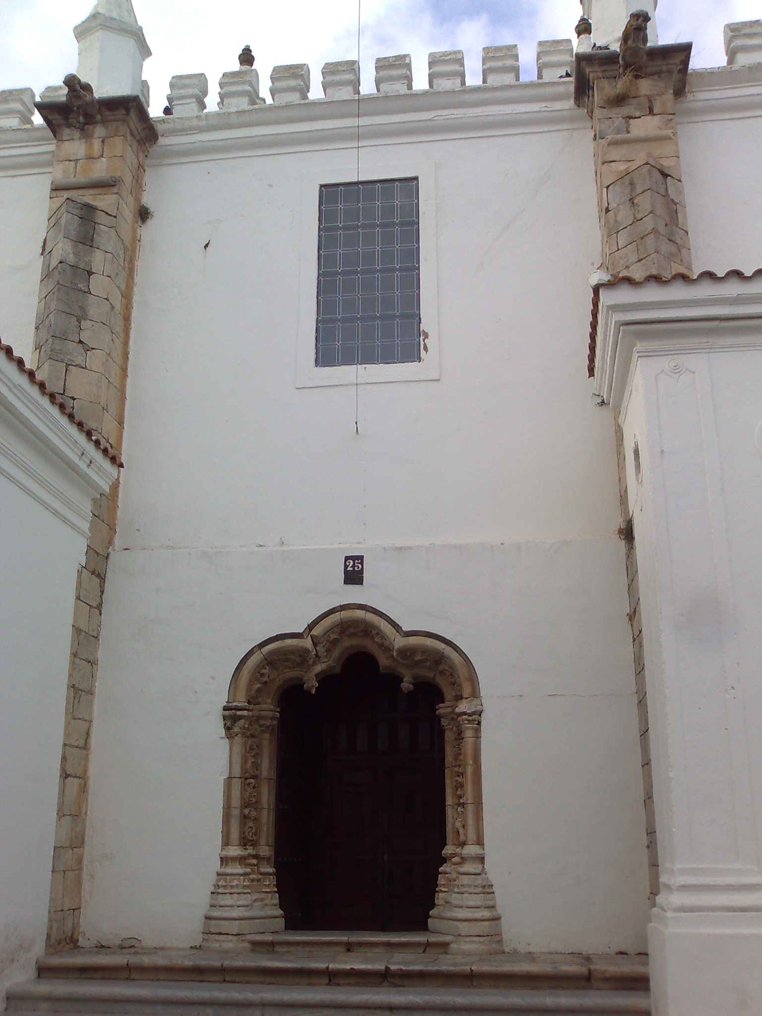 Church of Maria Magdalena (Olivença)